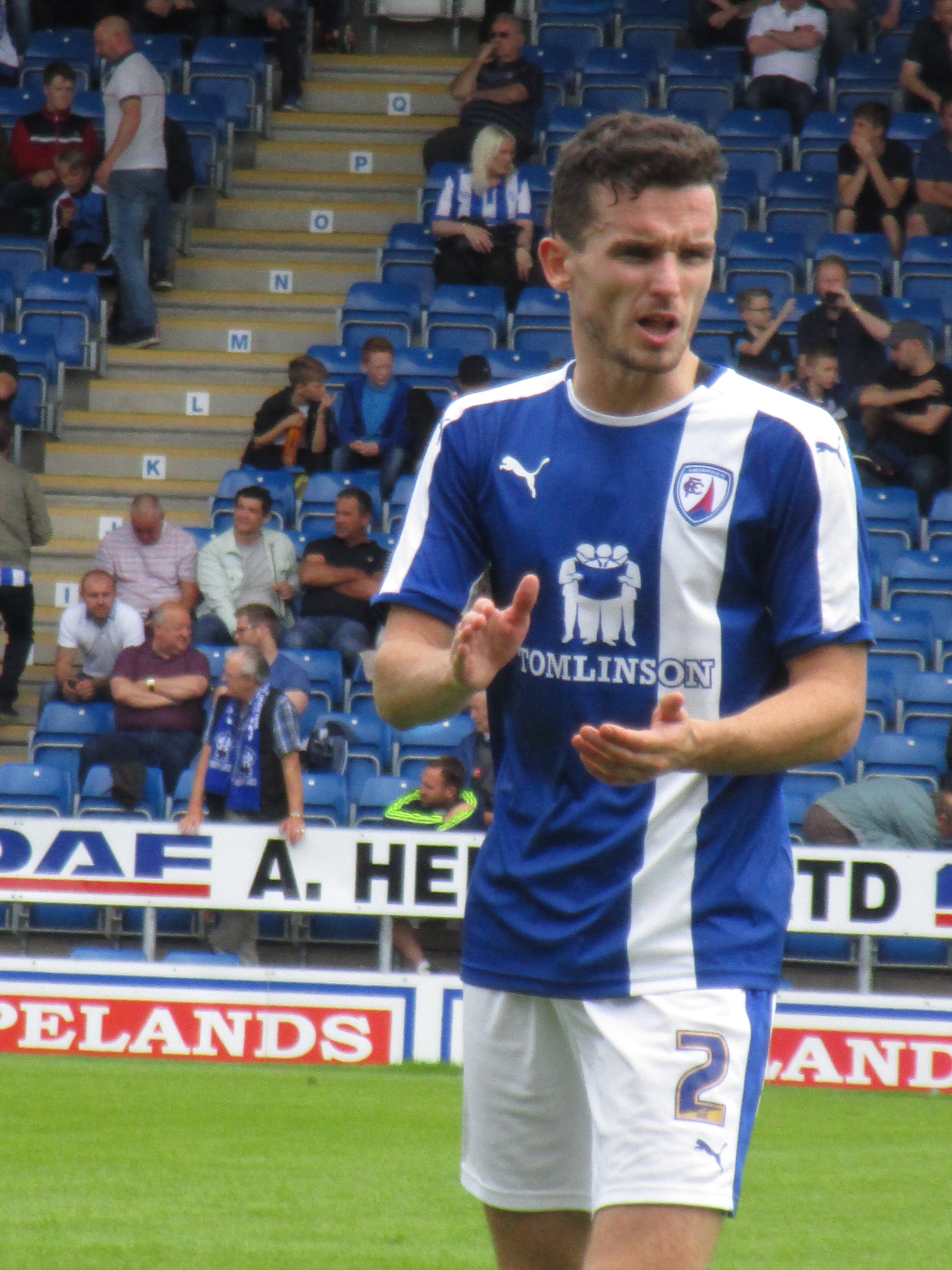 Paul McGinn playing for Chesterfield FC in a pre-season friendly July 2016.